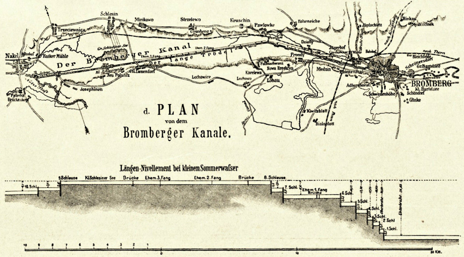 1894 German plan of the canal